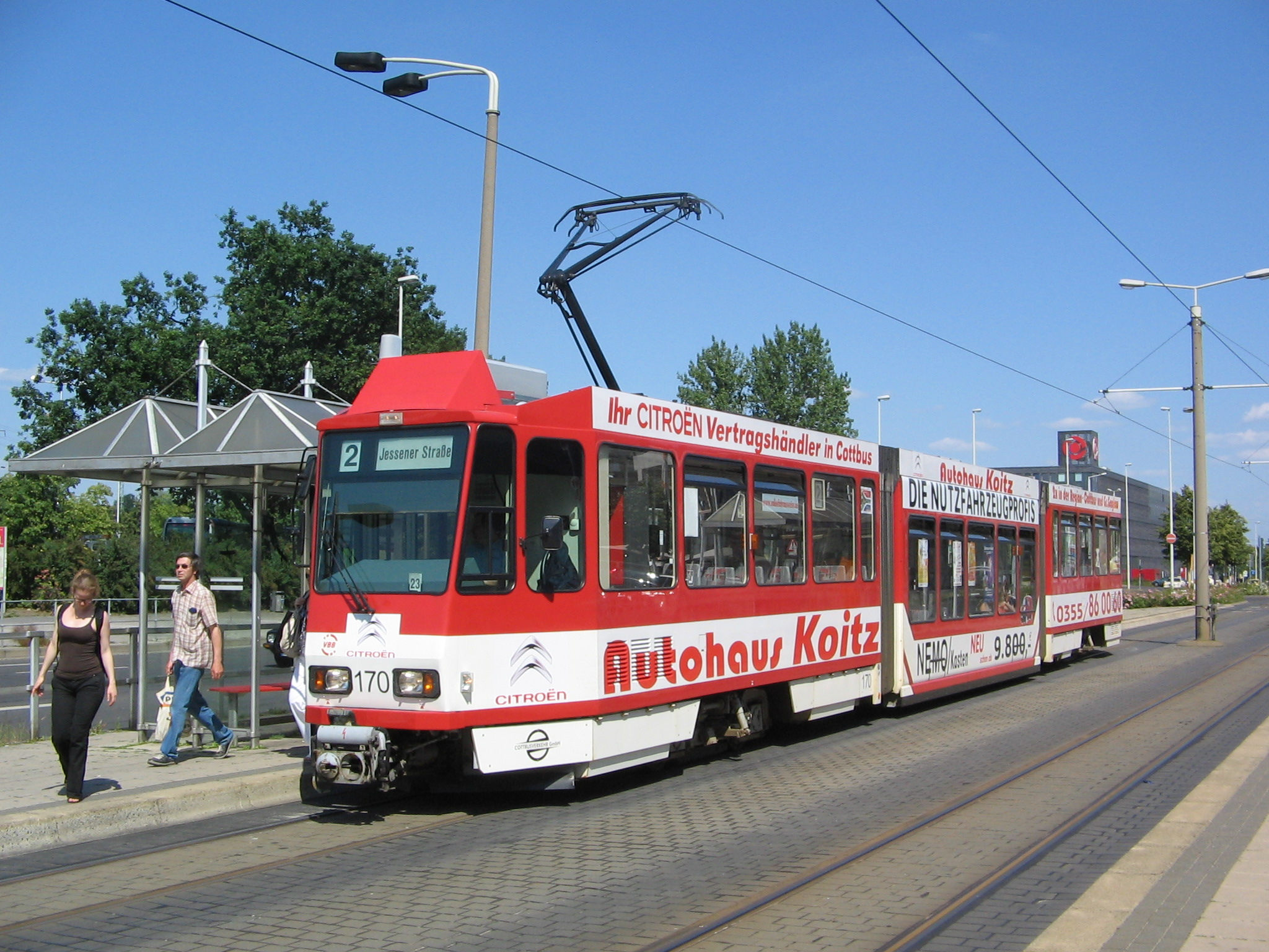 Streetcar, No. 170, by the central railway station.